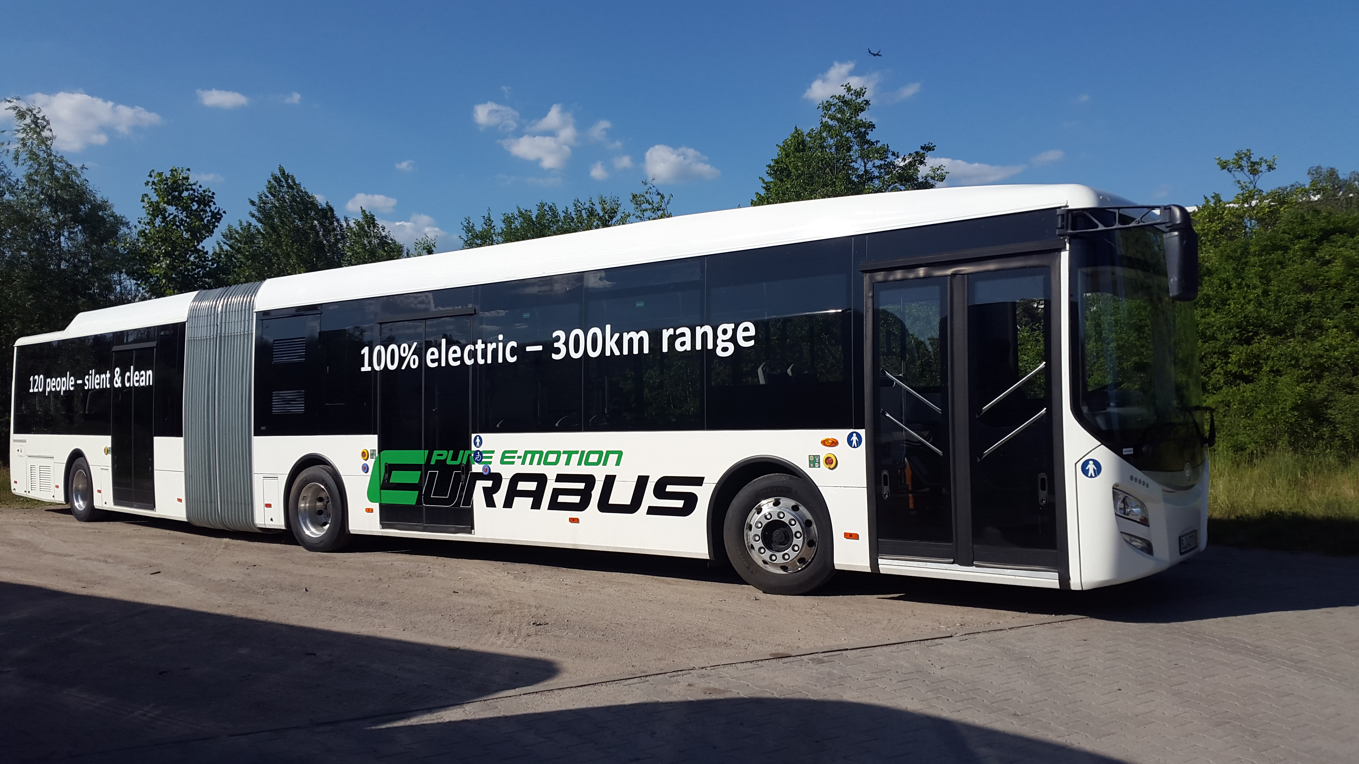 Eurabus 2.0 - 18 meters articulated bus